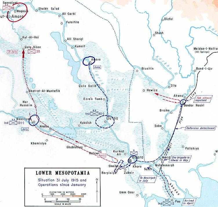 This map shows the British advance into Southern Mesopotamia, 1915.